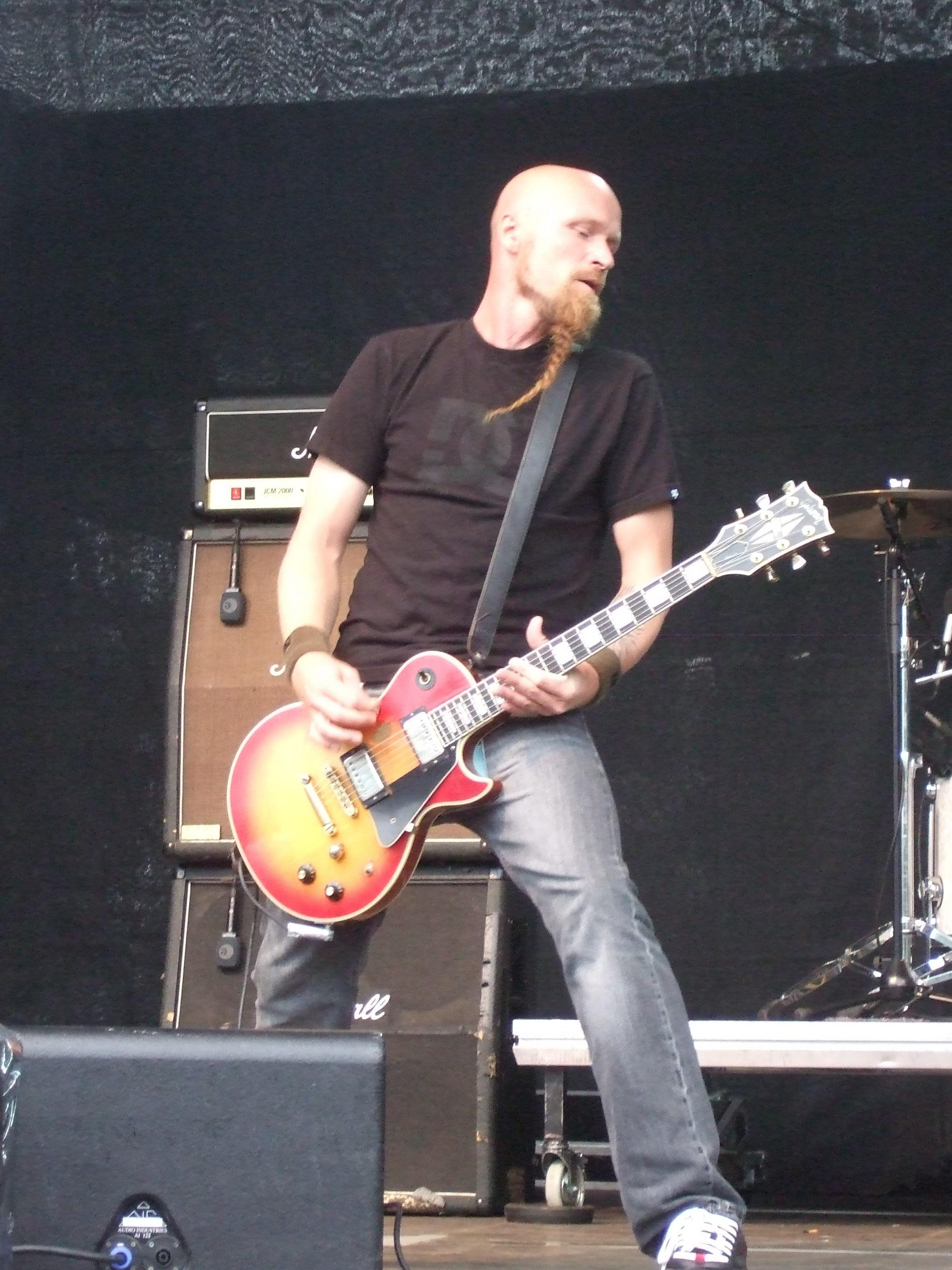 El Caco at the park festival in Bodø 2007